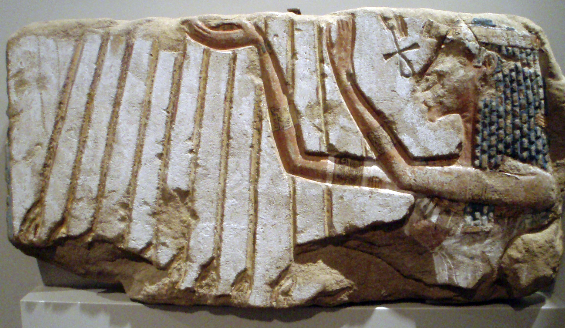 Relief Fragment of Nefertiti with the Sun Disk of the Aten. New Kingdom, 19th dynasty, circa 1350 B.C. Image taken at the Altes Museum, Berlin.